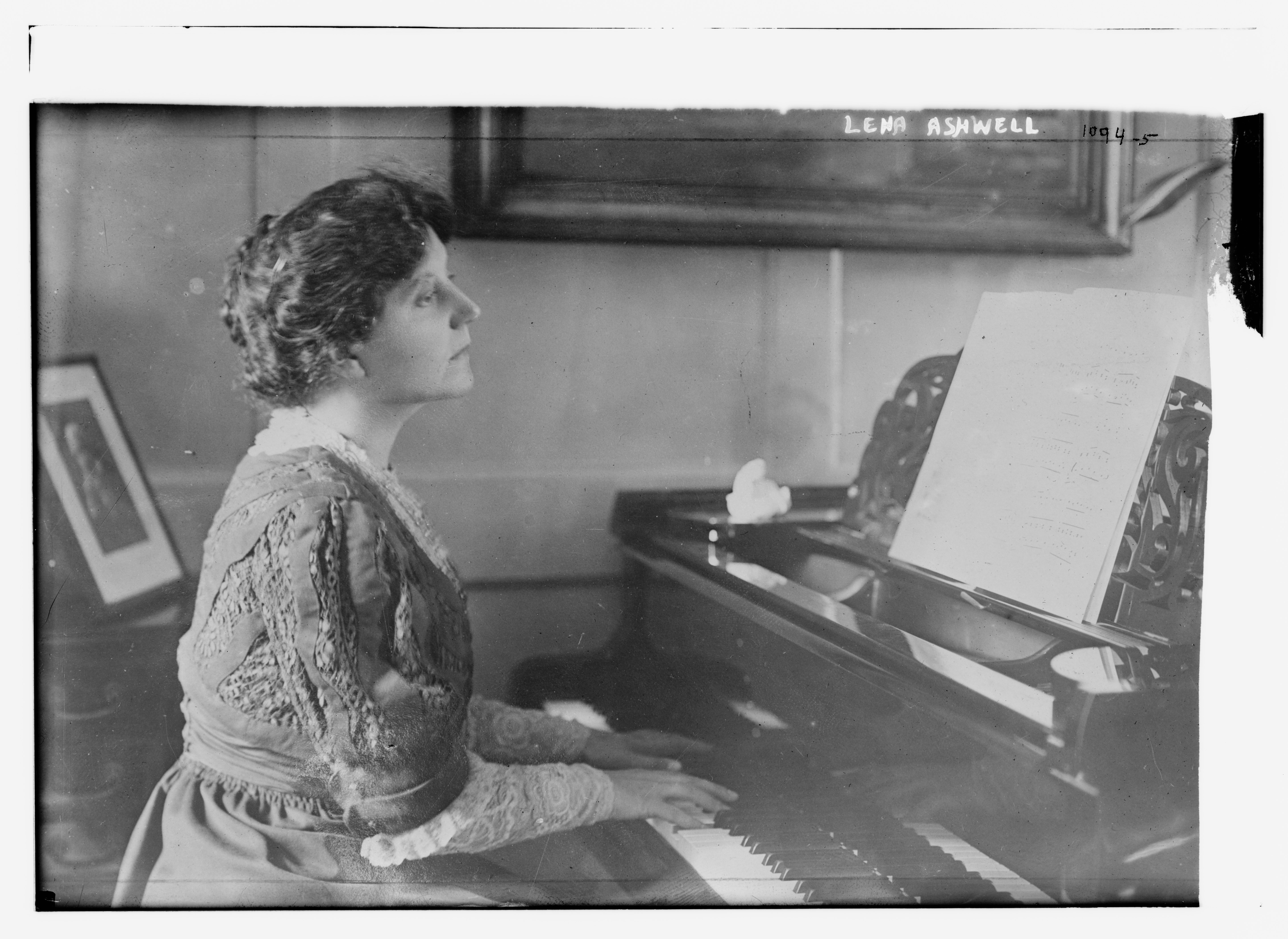 Title: Lena Askwell playing the piano Abstract/medium: 1 negative : glass ; 5 x 7 in. or smaller.